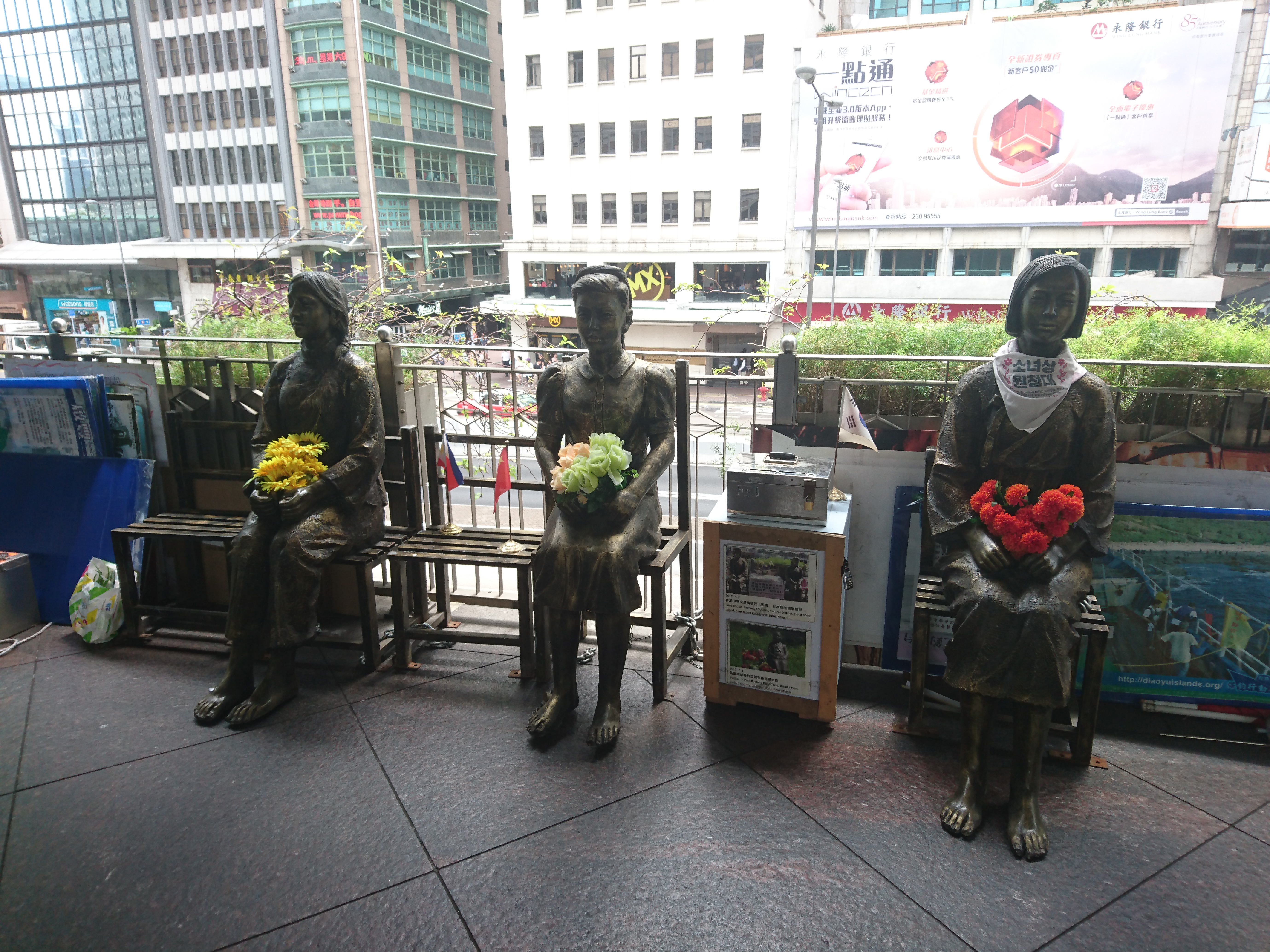 Comfort Women Statue in Hong Kong